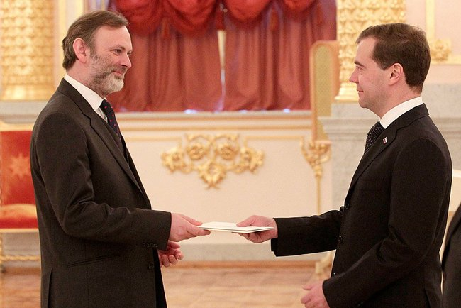 Ambassador of the United Kingdom to the Russian Federation, Mr Tim Barrow, presents his letter of credence to President of the Russian Federation Dmitry Medvedev, at a ceremony on 7 December 2011